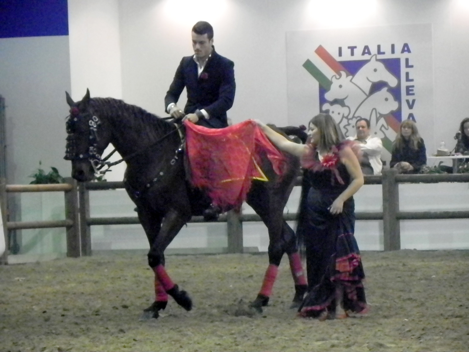 Salernitano, photographed at Fieracavalli, Verona, Italy, on 9 November 2014. Rider: Andrea Serritella